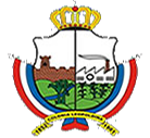 Coat of arms of Colônia Leopoldina - AL - Brazil.